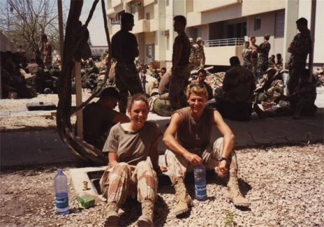 Ann Dunwoody